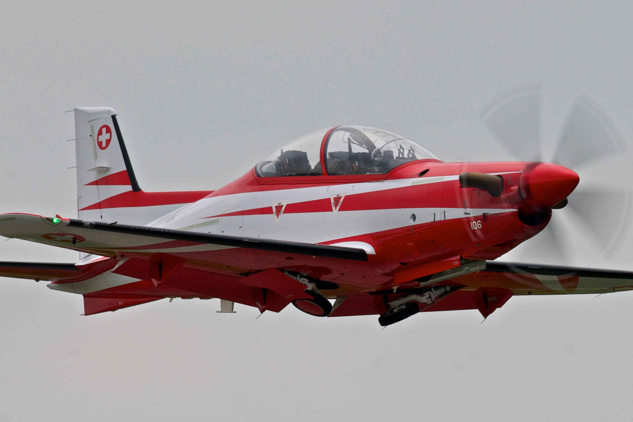 Payerne Airbase